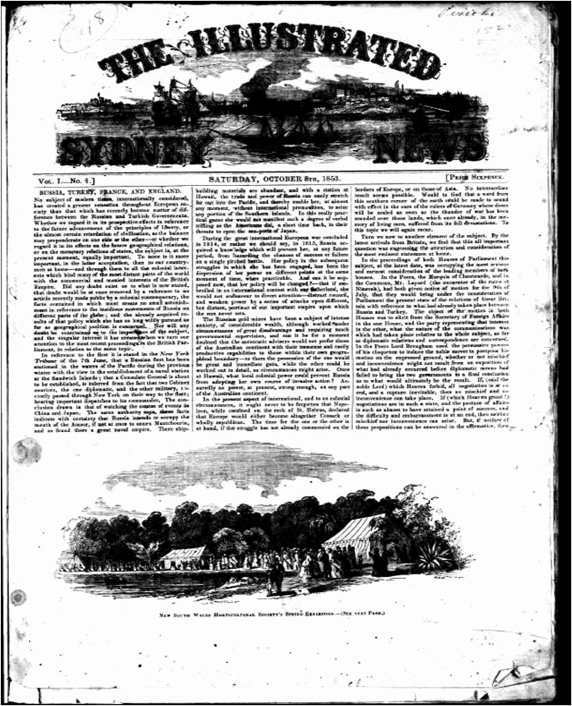 Coverpage of a historic newspaper from New South Wales, Australia.